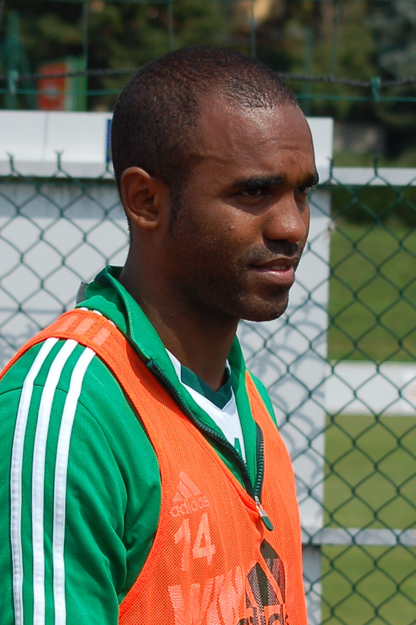 Football player Florent Sinama-Pongolle training with AS Saint-Etienne, on August 3rd, 2011 (L'Etrat, France).